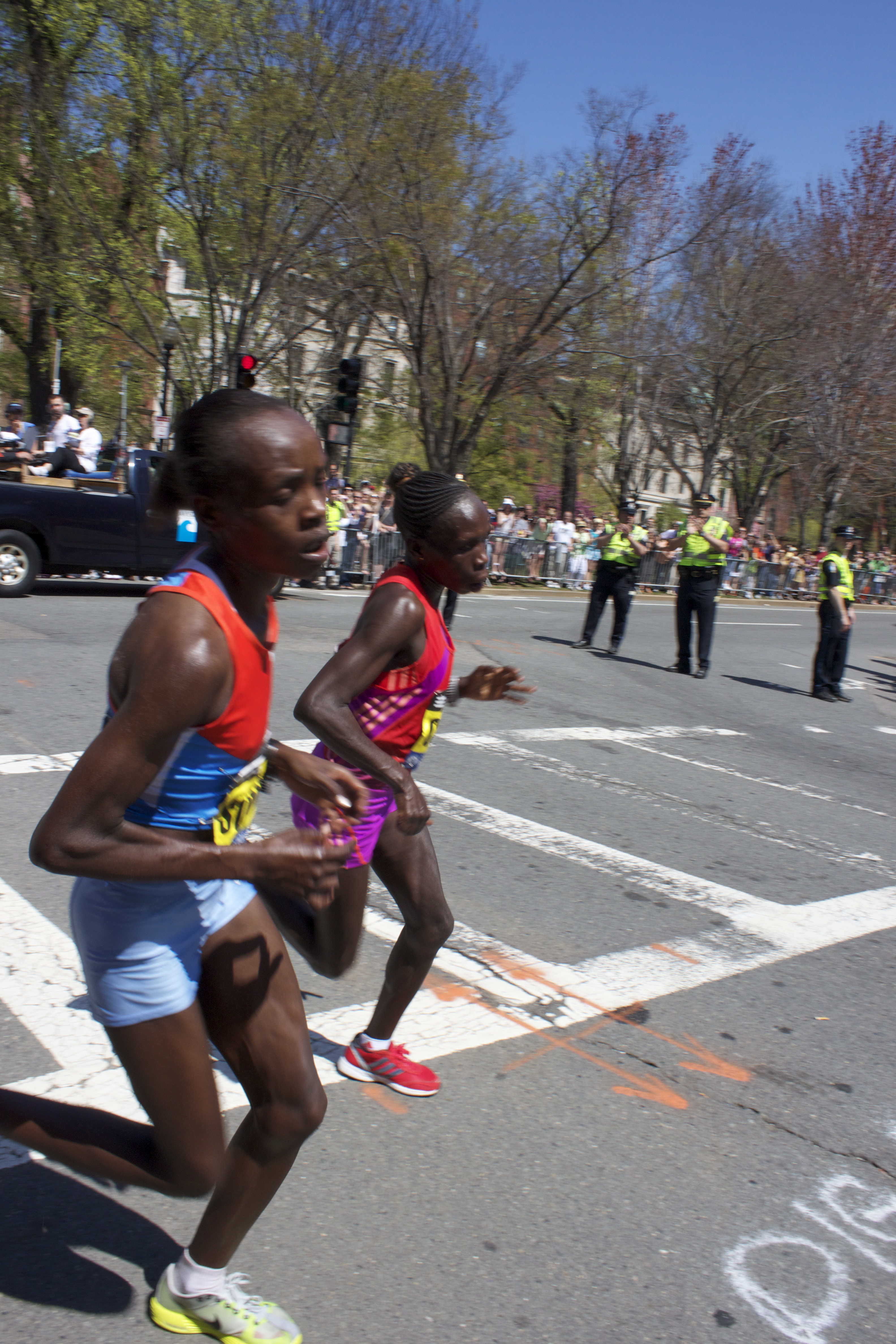 Sharon Cherop (2:31:50) and Jemima Jelagat Sumgong (2:31:52) of Kenya are the first two female competitors to round the corner of Commonwelath Ave and Hereford, the last turn before the final stretch on Bolyeston. Photo by Emily Zendt.